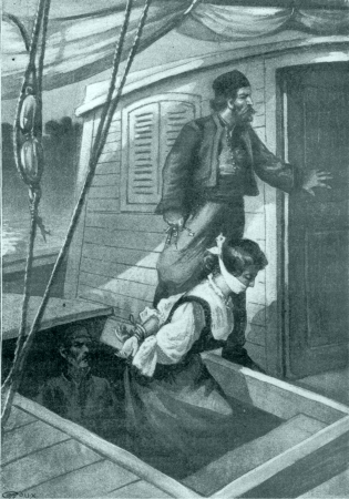 An illustration from Jules Verne's novel "The Danube Pilot" (1908) drawn by George Roux.